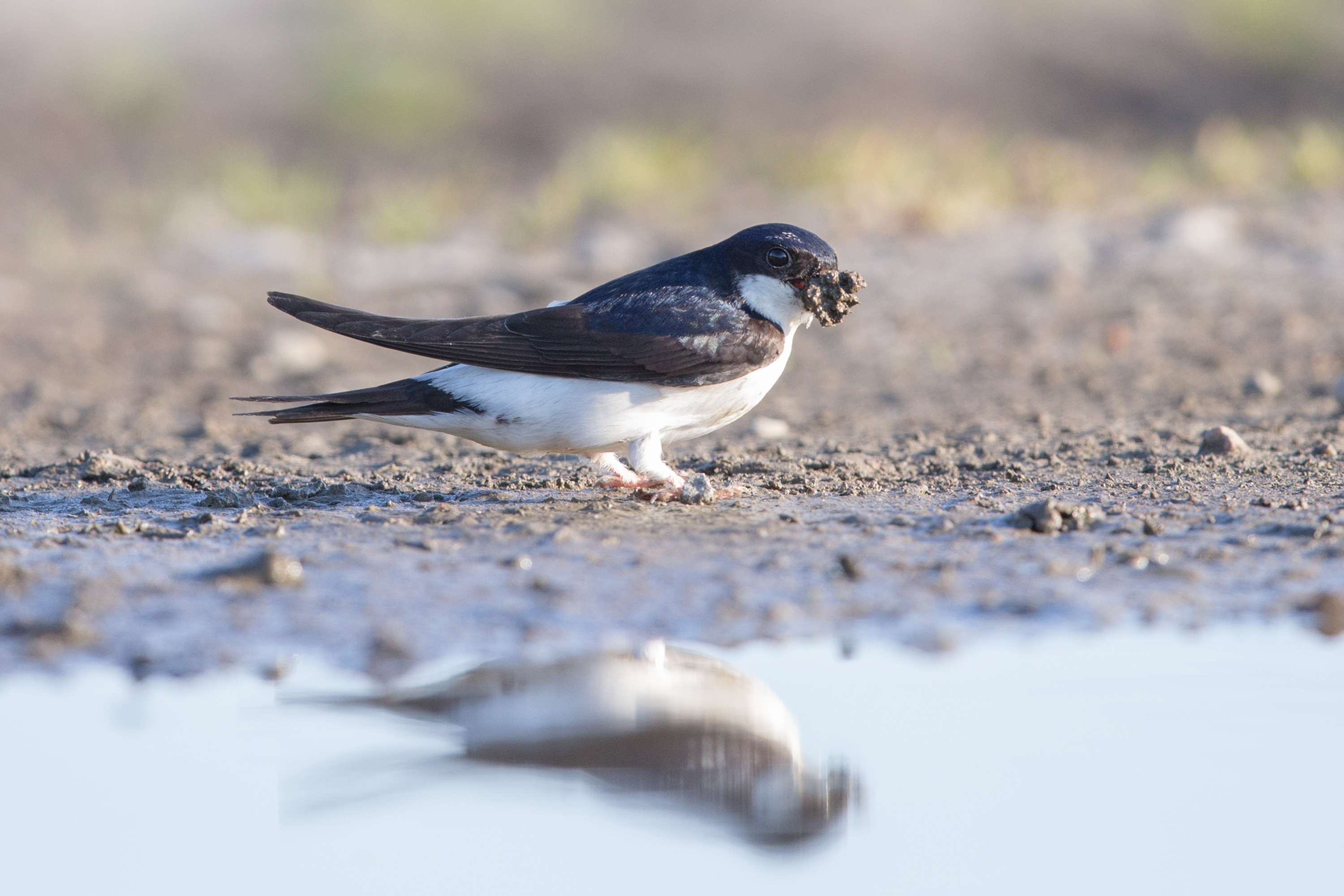 Common house martin